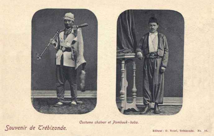 Postcard by Osman Nuri featuring Chalvar and cotton costumes in Trabzon, Turkey.